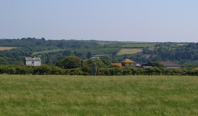 The Pipers of Boleigh. A somewhat distant view of 41054, which are nearly in line seen from this point, although they are almost 100 metres apart . The buildings in the background are part of Boleigh Farm, on either side of the B3315. In the distance is the Lamorna valley near Trewoofe.